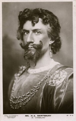 Photograph of the actor H. A. Saintsbury as Iachimo in Cymbeline (early 20th century). On the reverse is printed "Queen's Theatre, Manchester".